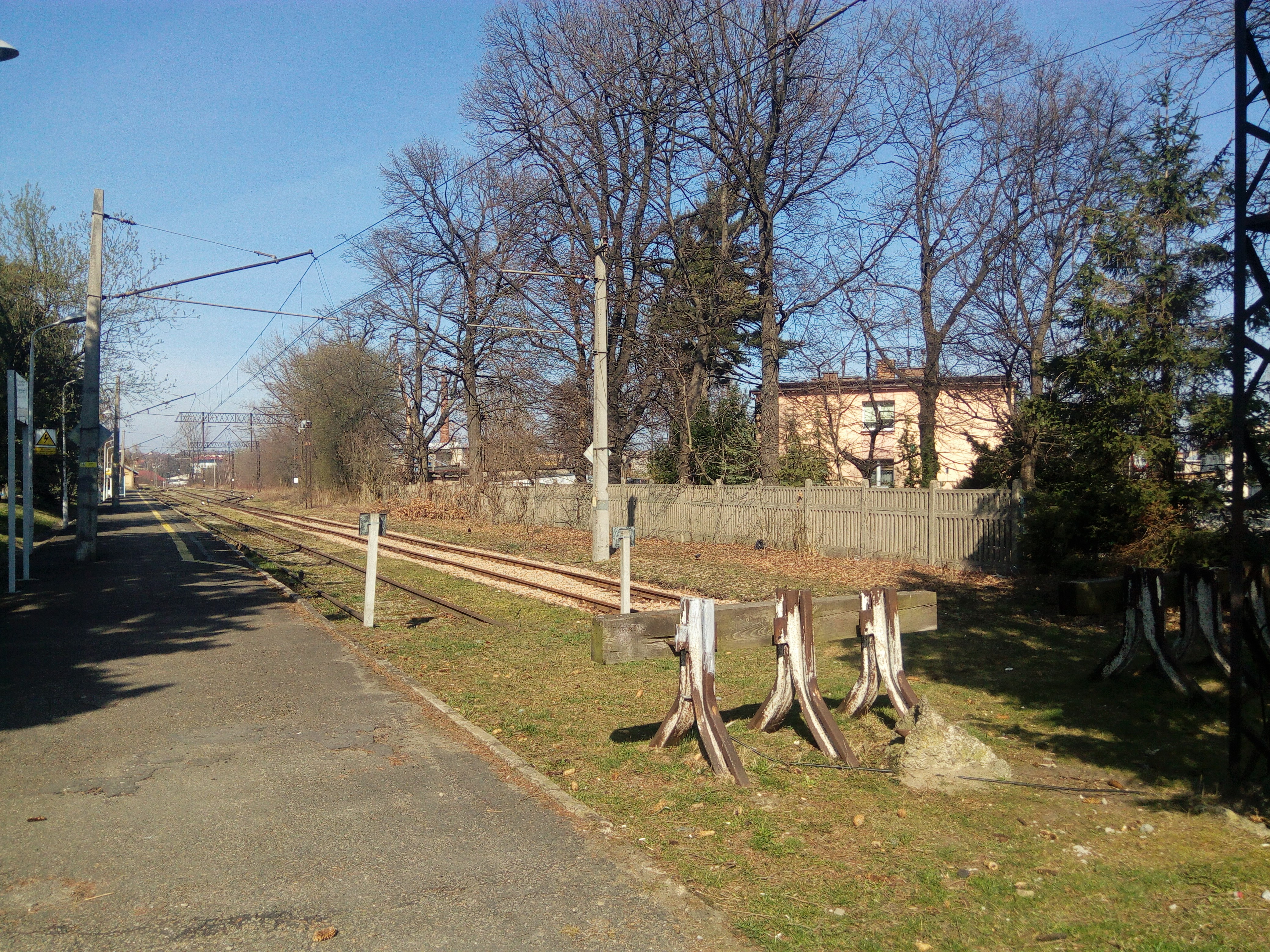 Gorlice train station, the end of the railway line 110.